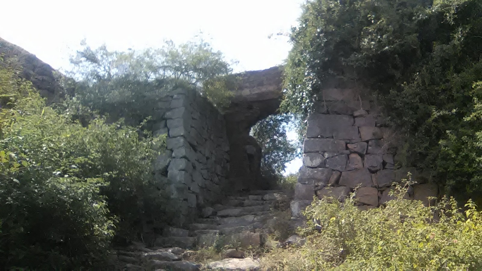 தரும்புரி மாவட்டத்தில் உள்ள வீரபத்திரதுர்கம் என்னும் மலைக்கோட்டையின் ஏழு நுழைவாயில்களில் ஓரளவு அழியாமல் எஞ்சியுள்ள ஒரு நுழைவாயில்